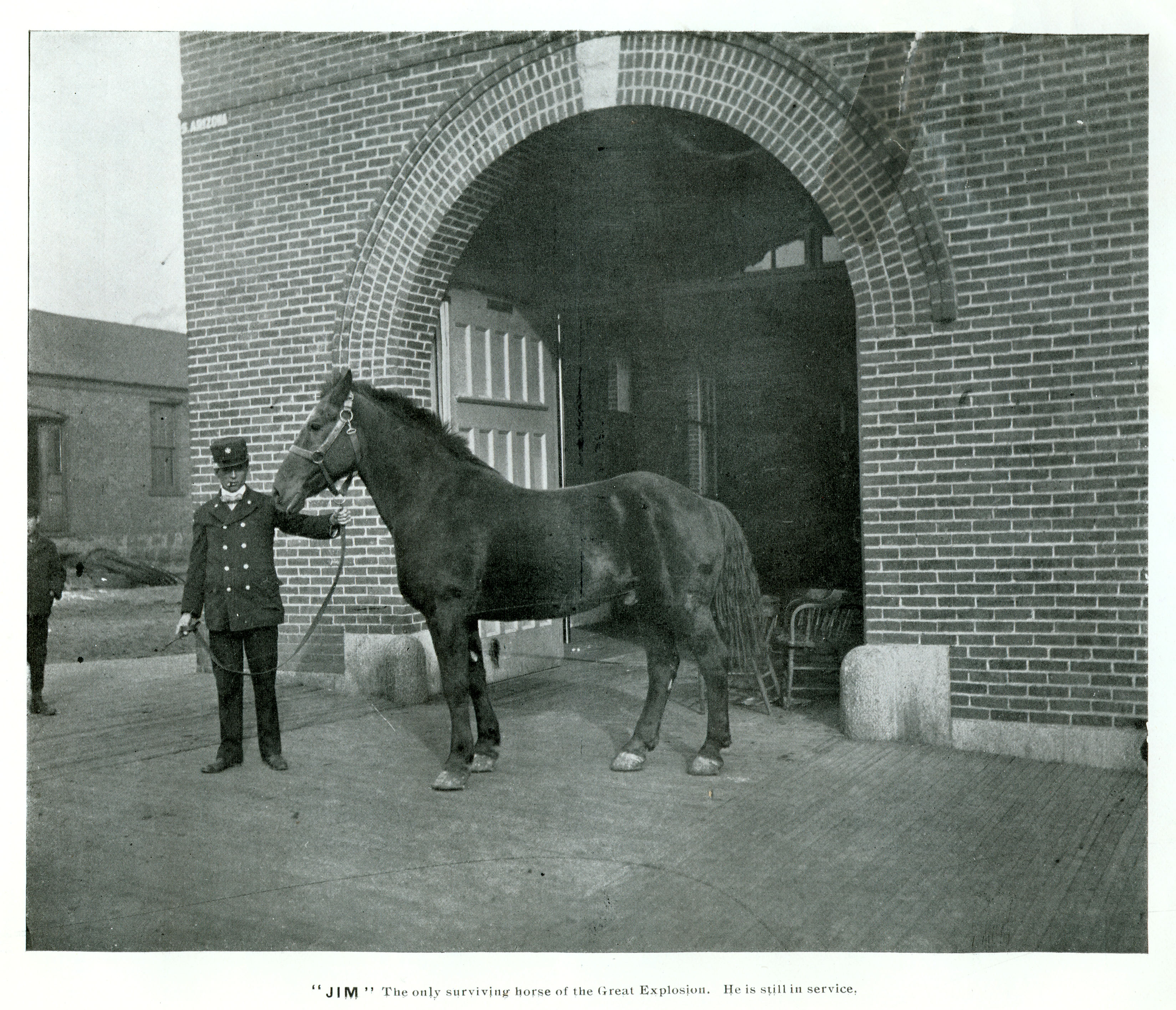 Surviving horse of Great explosion in Butte, MT, 15 Jan. 1895